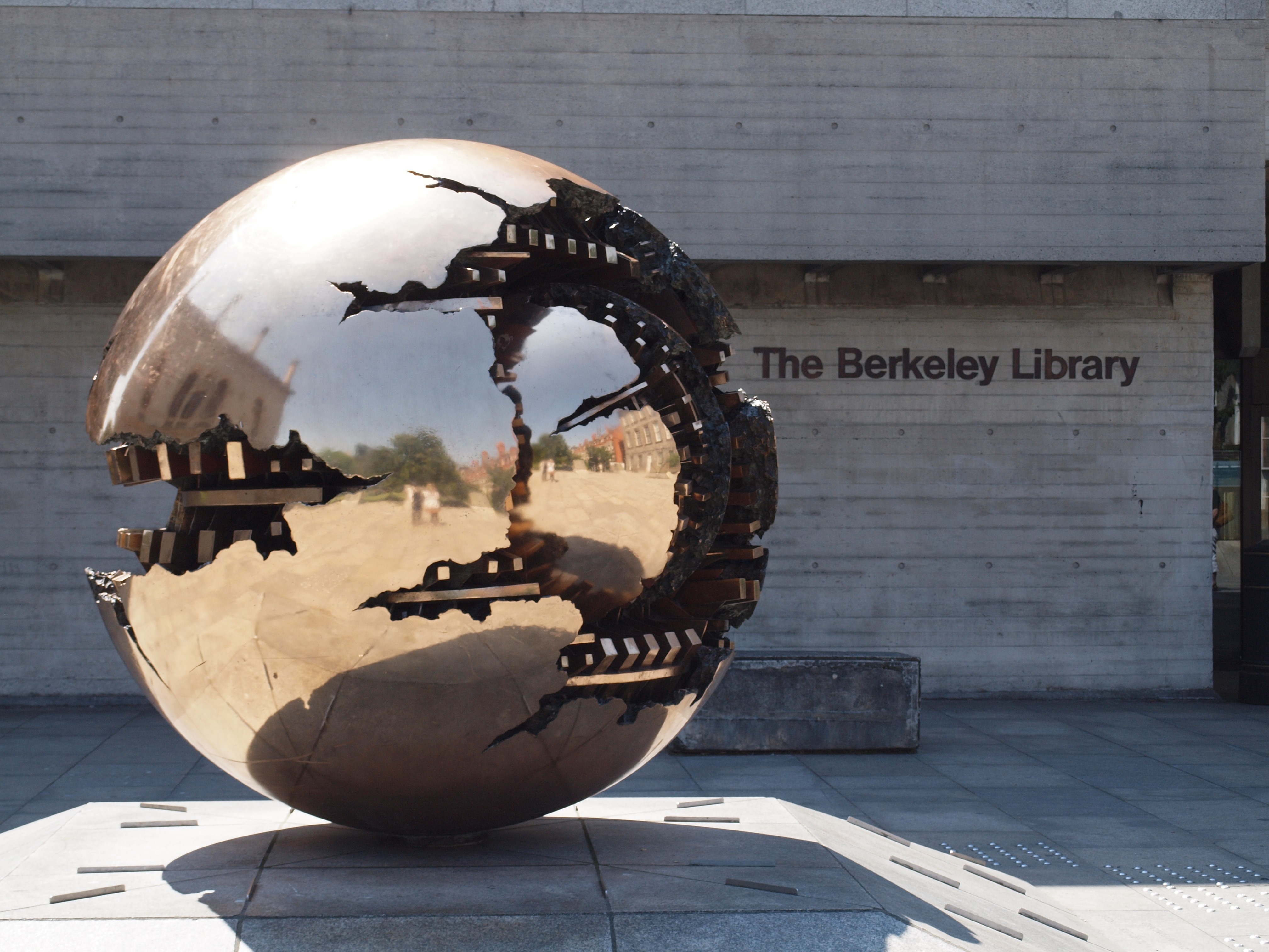 Arnaldo Pomodoro's sculpture 'Sfera con Sfera' (1986), also known as the 'Pomodoro sphere', in front of The Berkeley Library, Trinity College Dublin